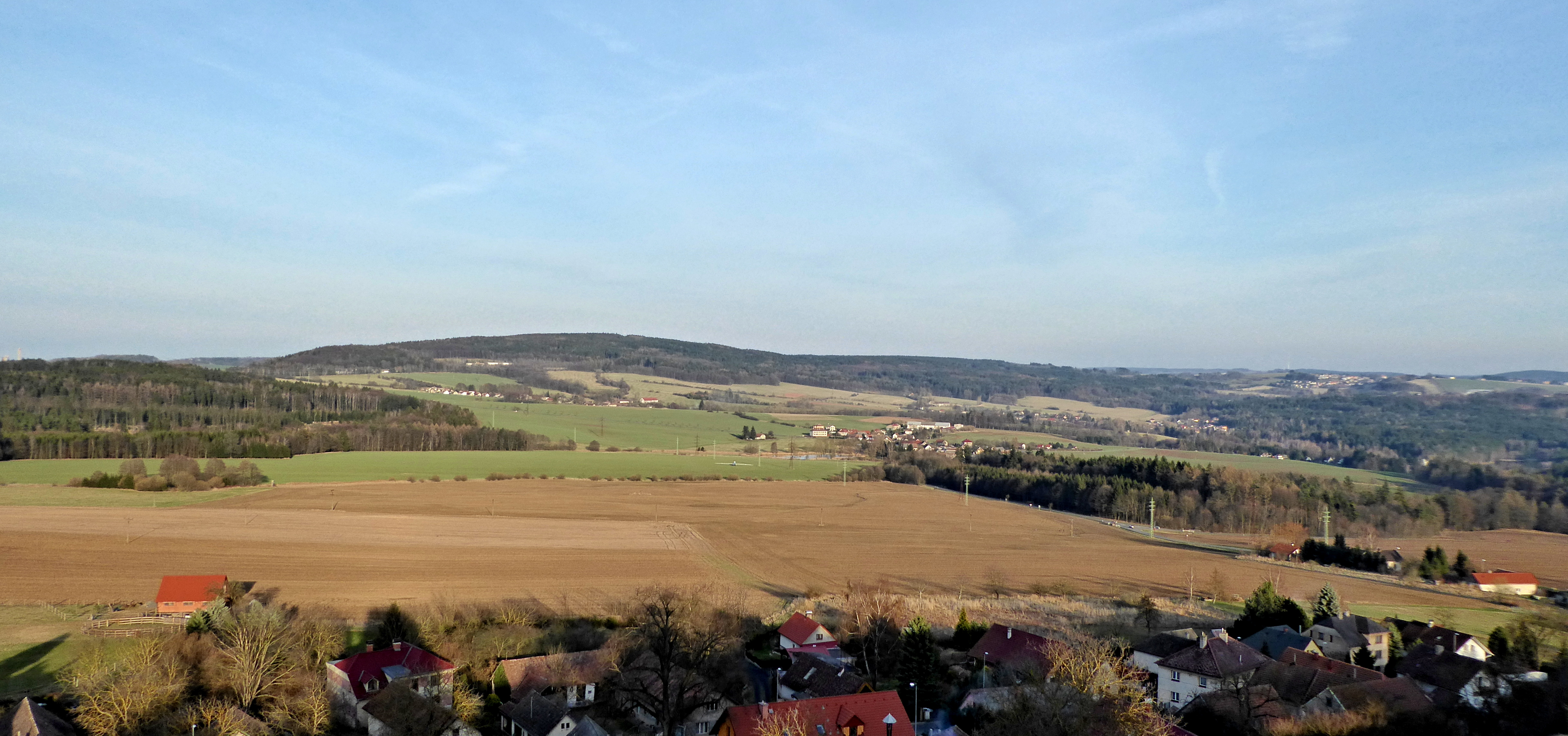 The "Podhradská" basin surrounded by the peaks of the Iron Mountains. "Podhradská" basin is landscape area and geomorphological district of "Sečská" highlands. View from the castle ruins of Lichnice in the cadastral of Podhradí in Iron Mountains. Photo location: Czechia, Pardubice Region, villages Podhradí